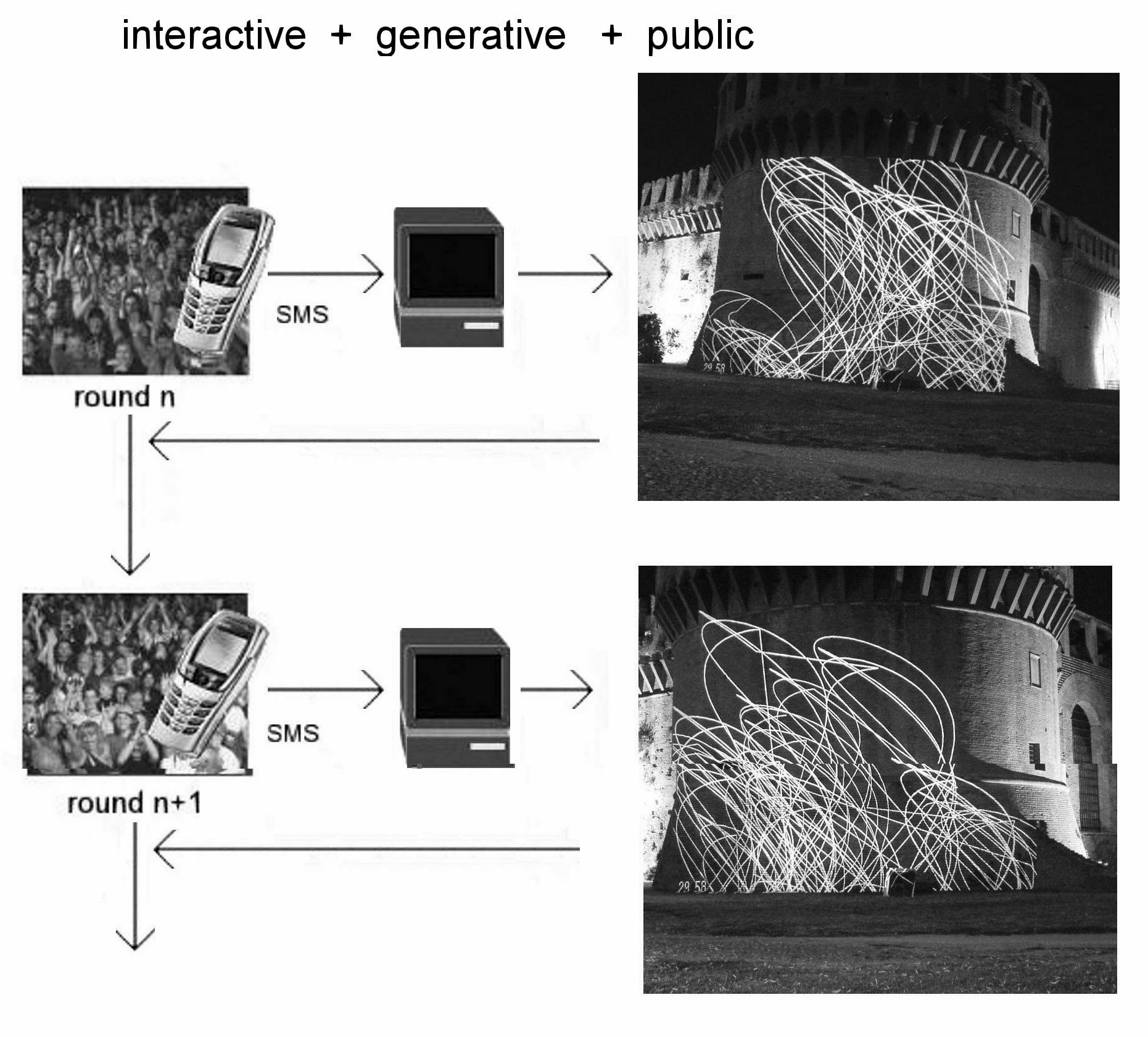 Maurizio Bolognini's interactive installations (CIMs series): interaction structure